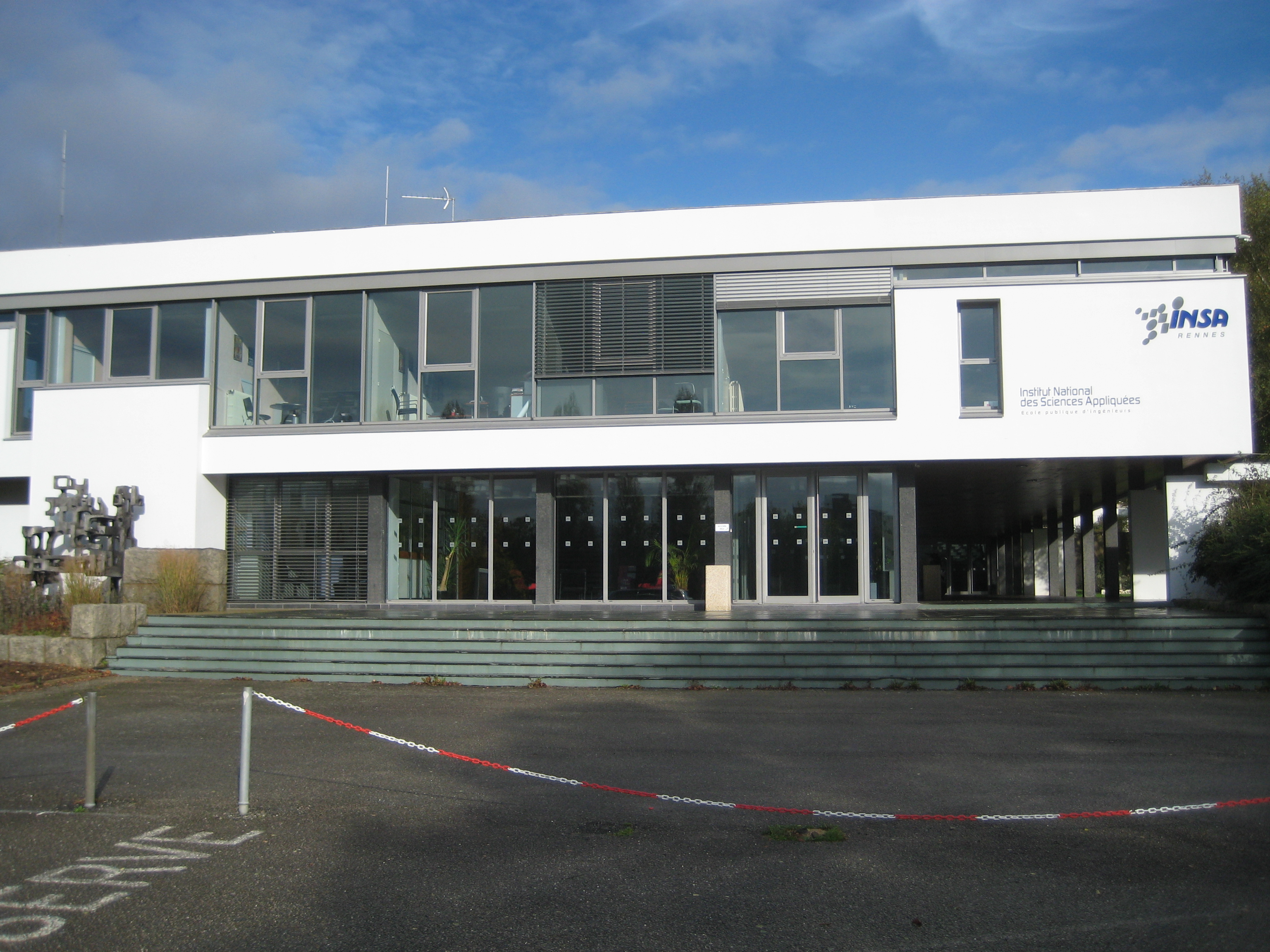 engineering School INSA Rennes, campus de Beaulieu